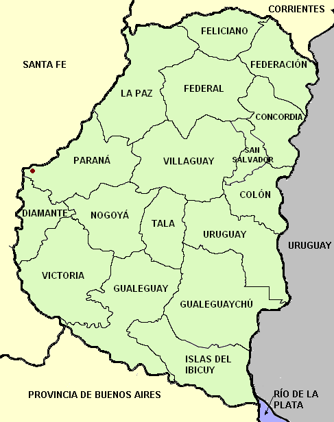 Administrative boundaries of Entre Ríos province in Argentina, its departments and its capital (Paraná).